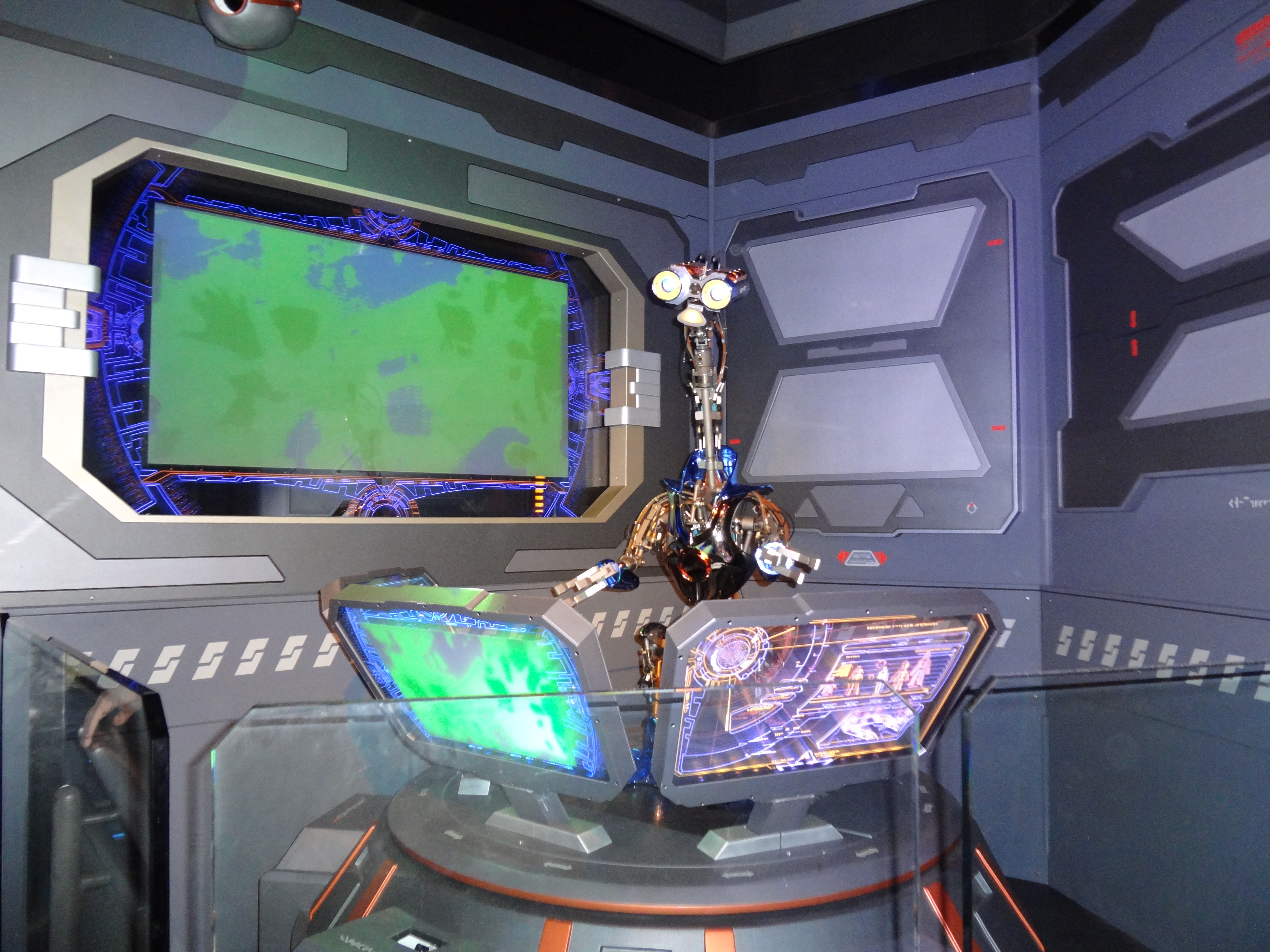 Visit my travel blog at Xcellent Trip for great travel tips about some of the most popular world destinations. This is picture from Disneyland park in Anaheim, Los Angeles (LA), California (CA) United States of America (USA).